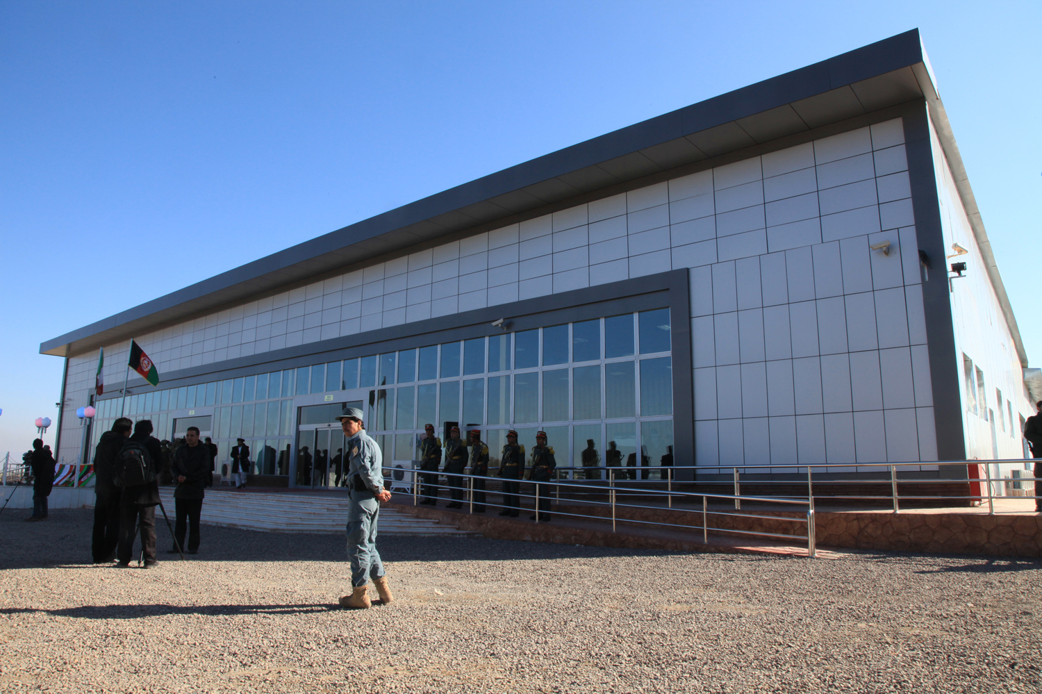 Afghan citizens and coalition members stand outside the newly-completed Herat International Airport at its opening ceremony Feb. 13. The airport is part of a recent string of development projects in Herat province.